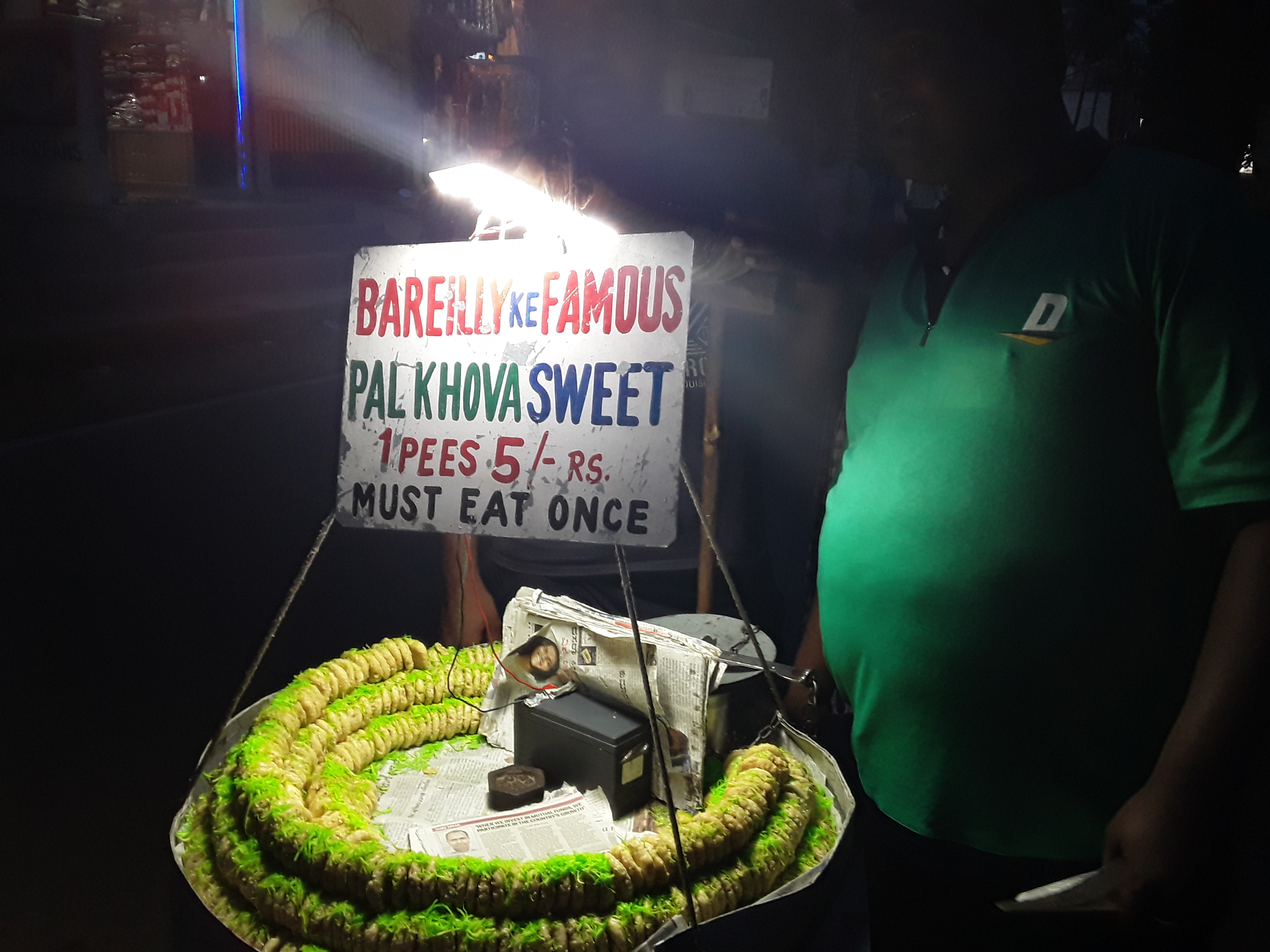 Mysore district, Karnataka province, India.